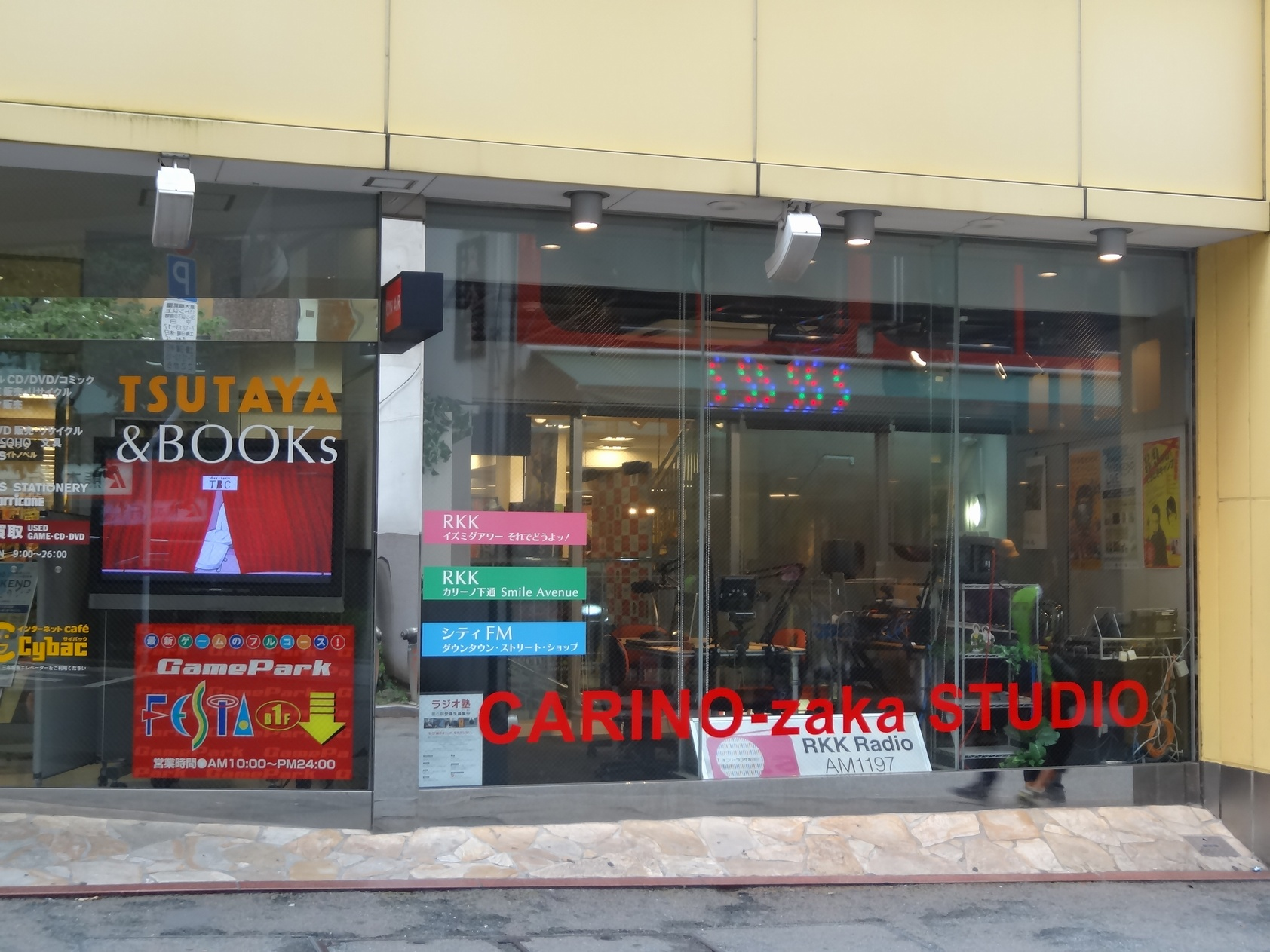 CARINO-zaka Studio (Kumamoto City, Japan)